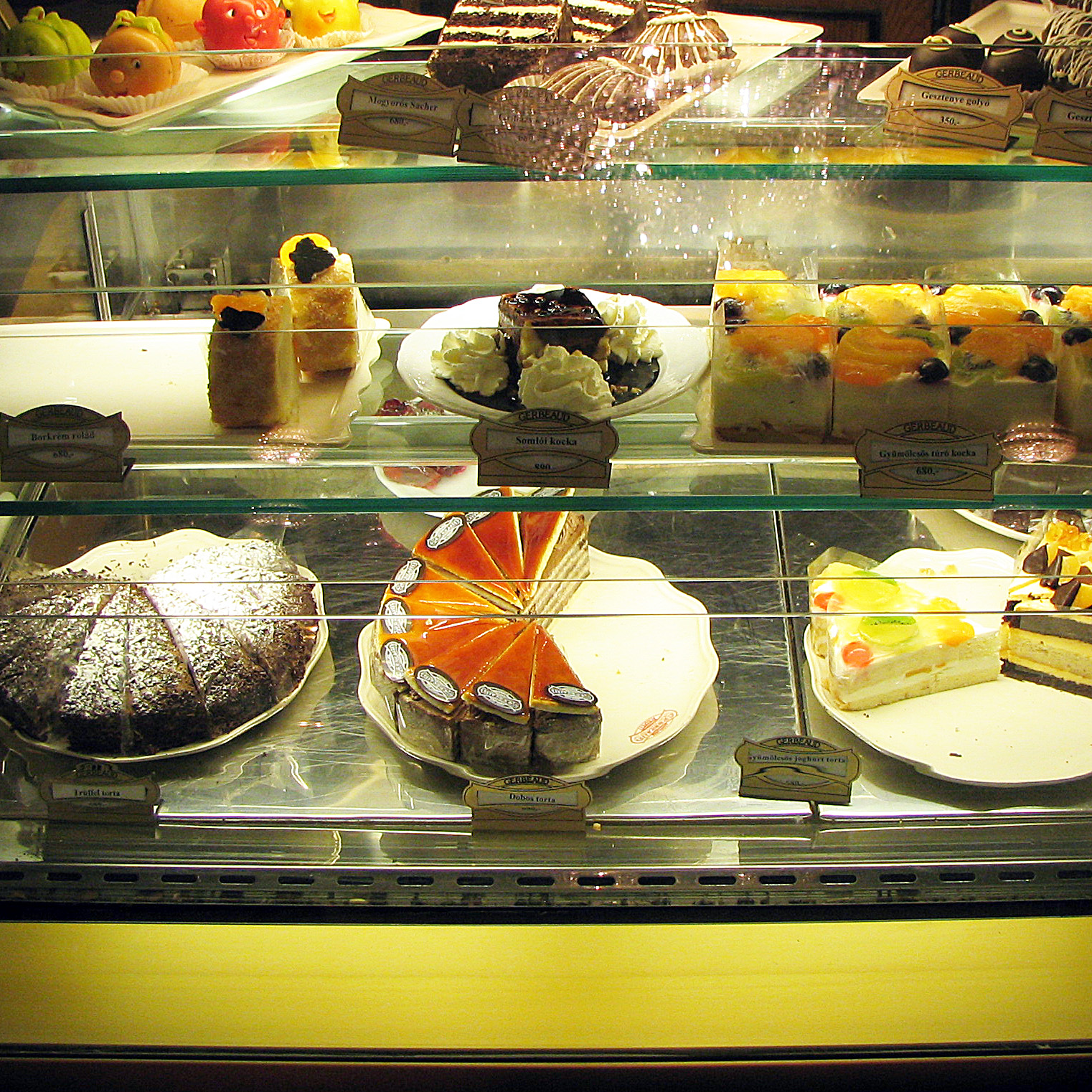 Café Gerbeaud, Budapest1